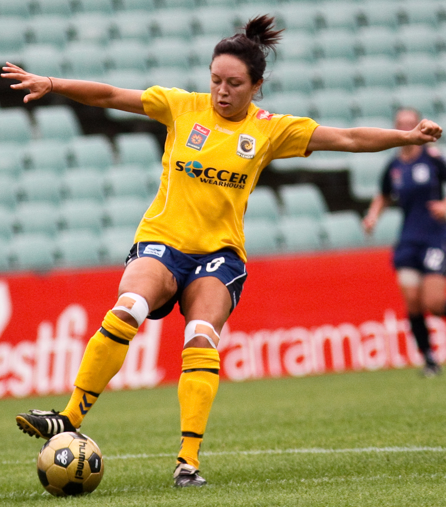 Kyah Simon playing for the Central Coast Mariners against Melbourne Victory in Round 10 of the 2008 W-League.